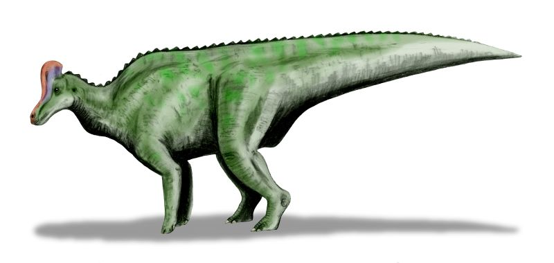 Velafrons coahuilensis, a hadrosaur from the Late Cretaceous of Mexico, after Gates et al., 2007, pencil drawing, digital coloring